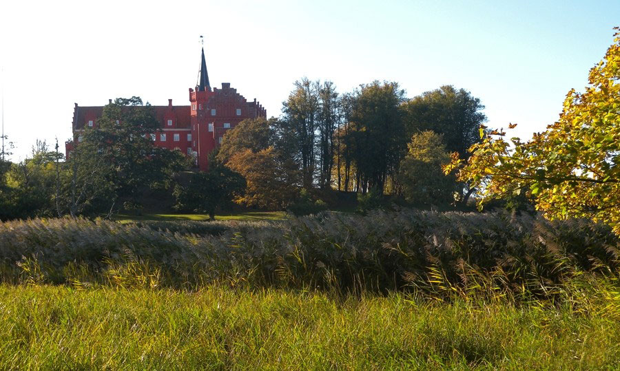 Tranekær is a town in central Denmark, located in Tranekær municipality on the island of Langeland.